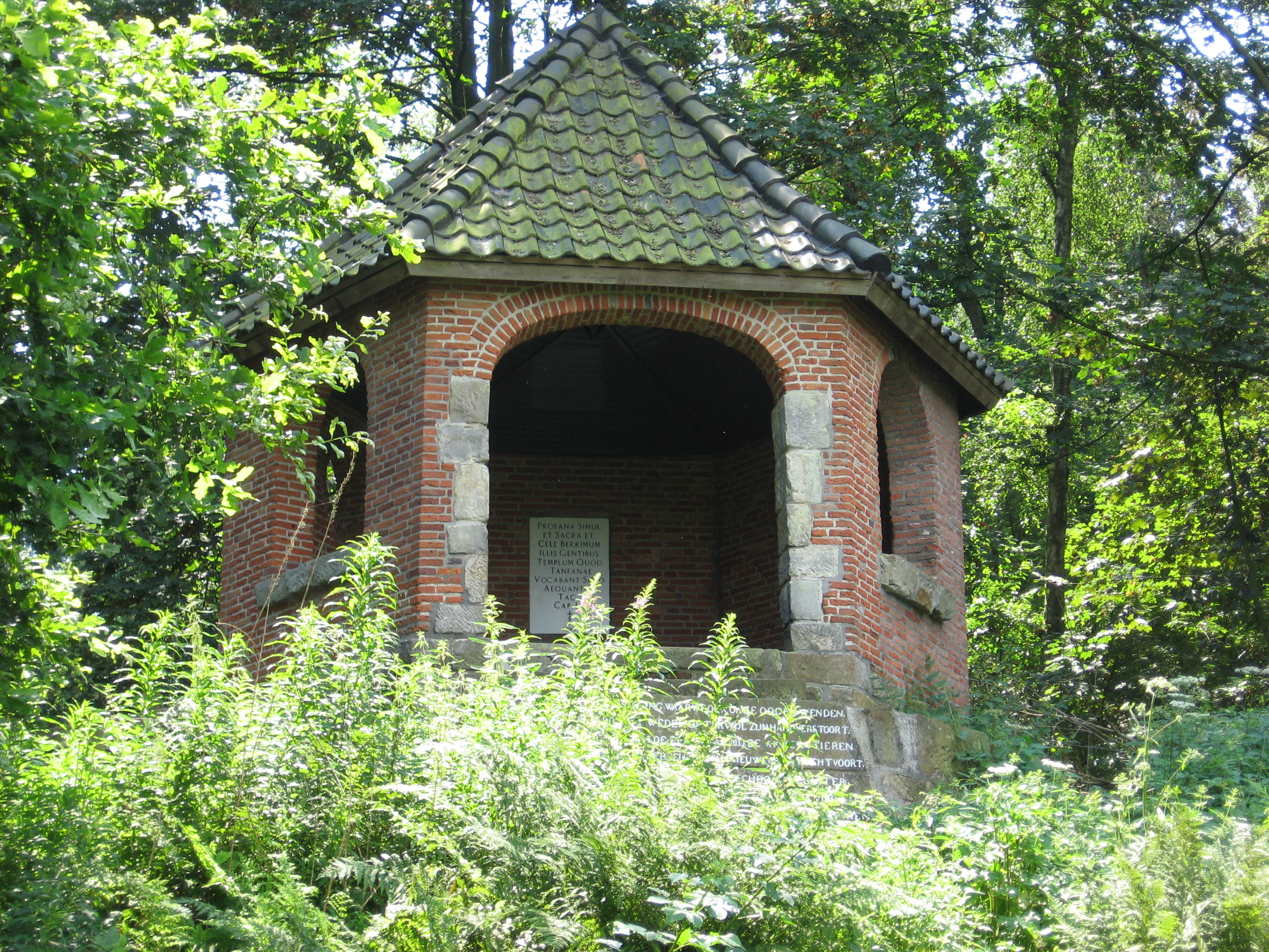 Building on top of the Tankenberg